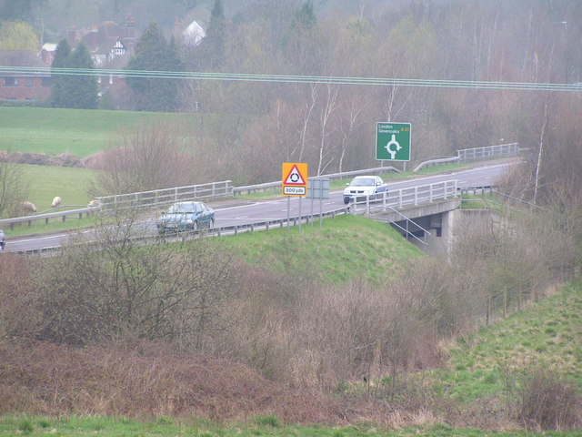 Robertsbridge Bypass crossing the R. Rother